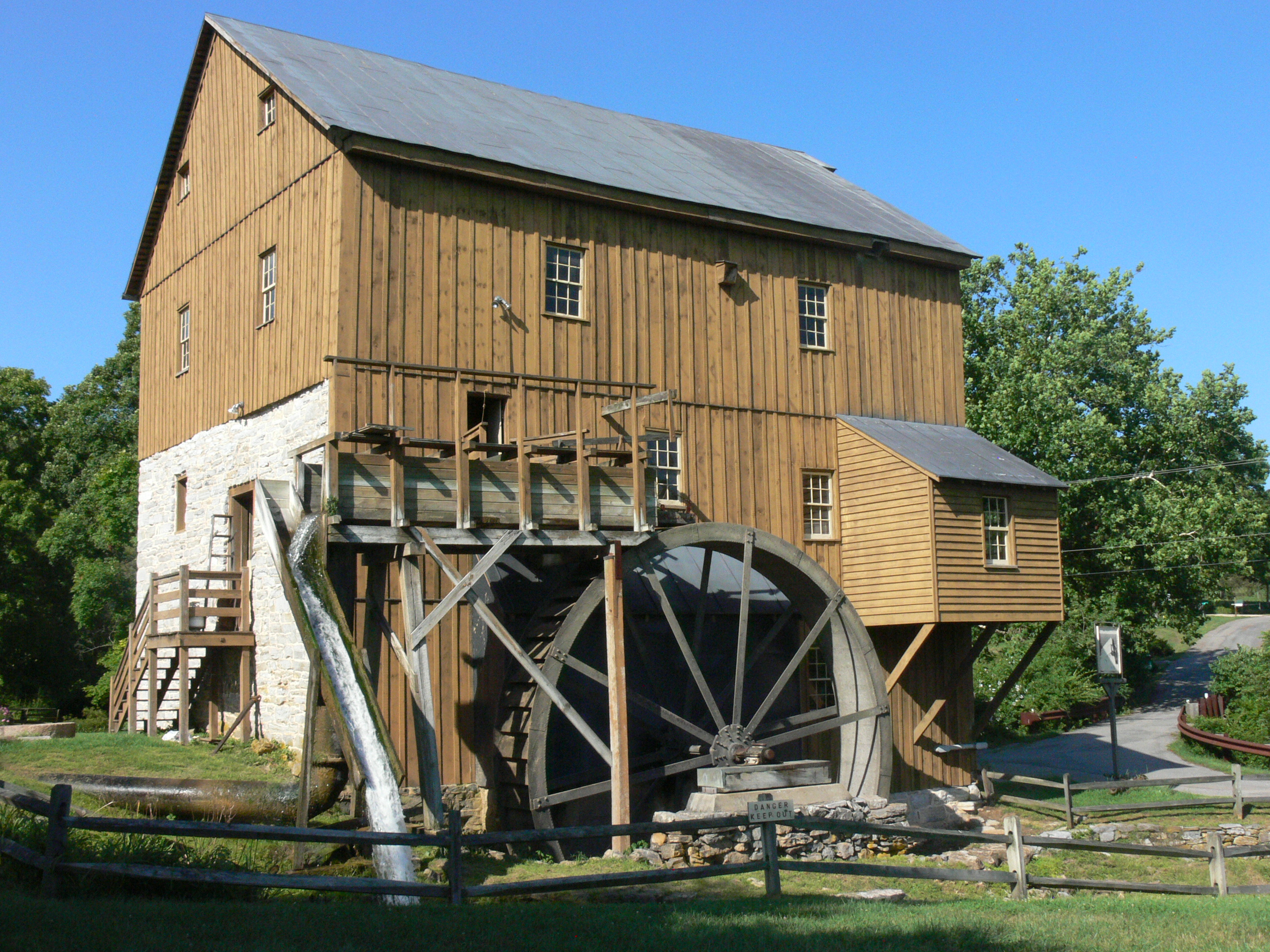 Wade's Mill, an operational grist mill near the town of Raphine, in Rockbridge County, Virginia. On the National Register of Historic Places. At the time of the photo milling was not taking place, and so the water, piped down from the millpond, is sluicing off to the side instead of across the wheel.